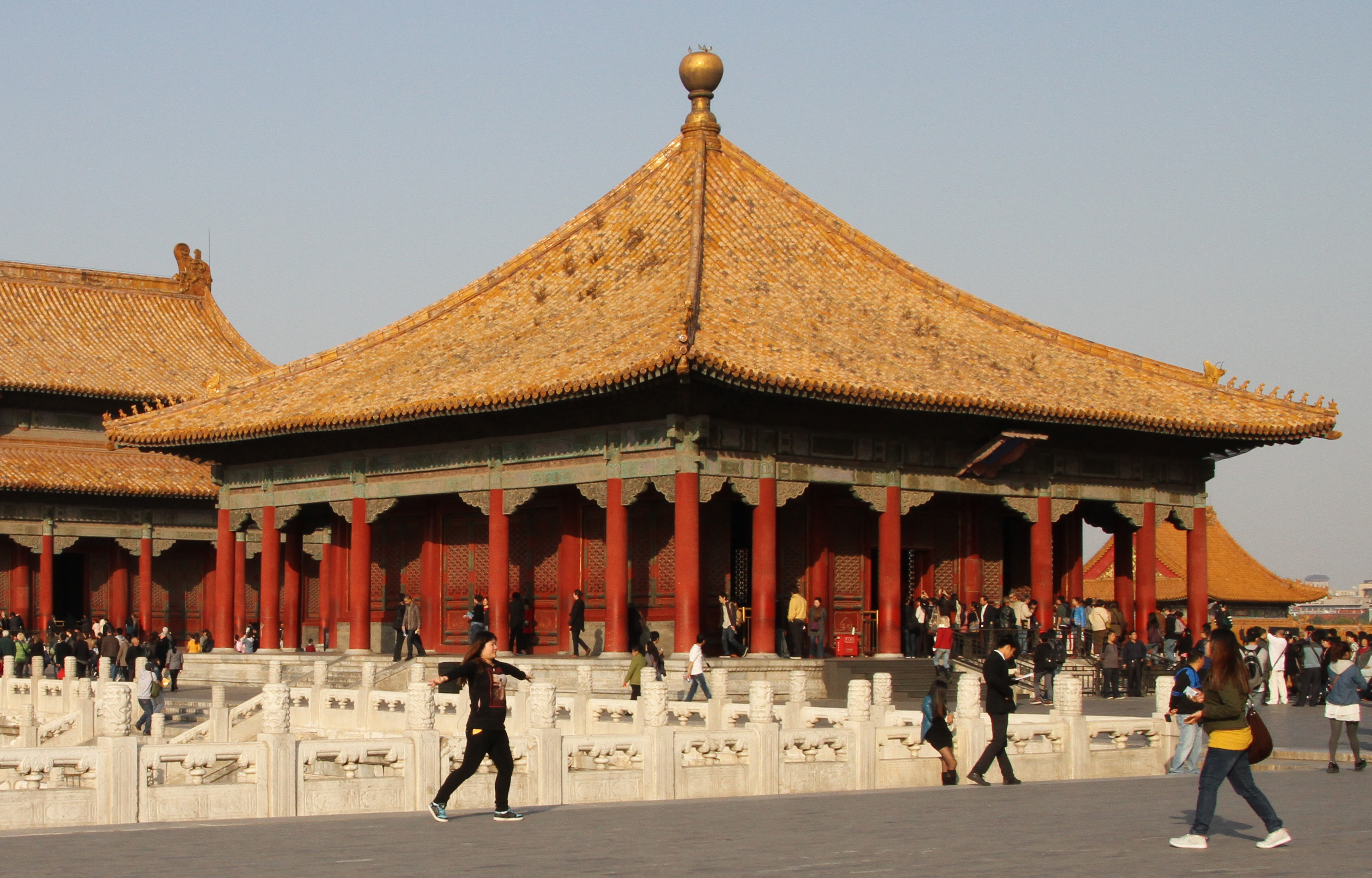 Beijing - Forbidden City - Hall of Central Harmony